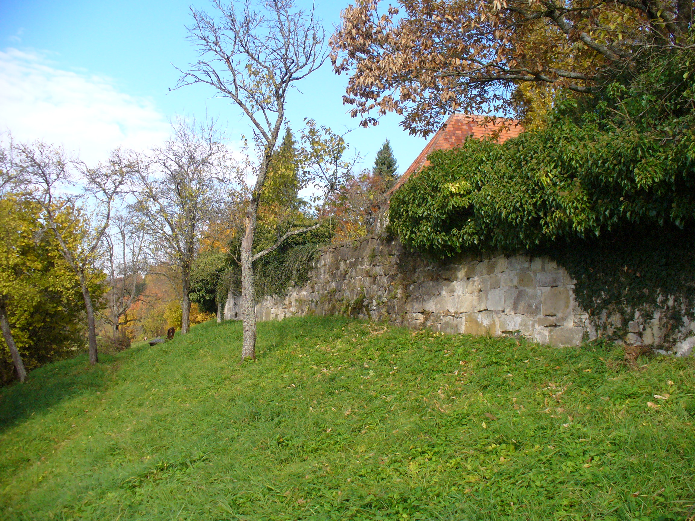 Adelberg Abbey, Wall